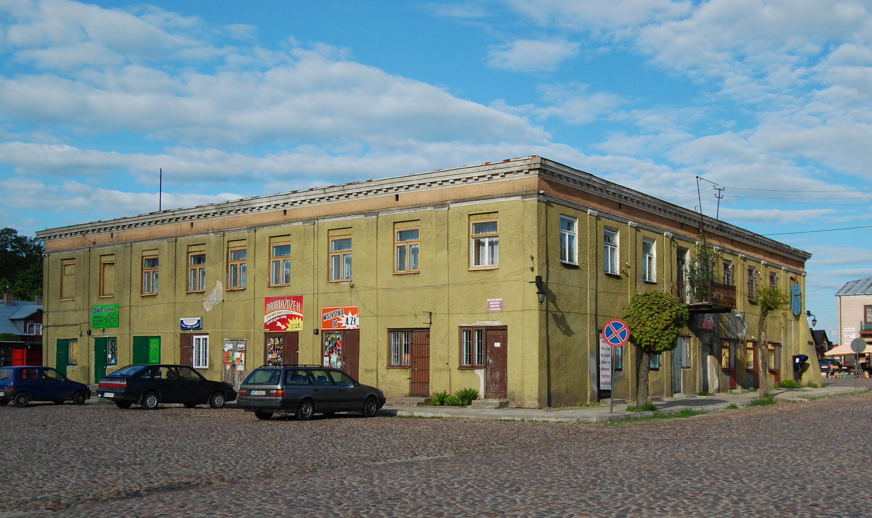 City hall in Żelechów, Poland.